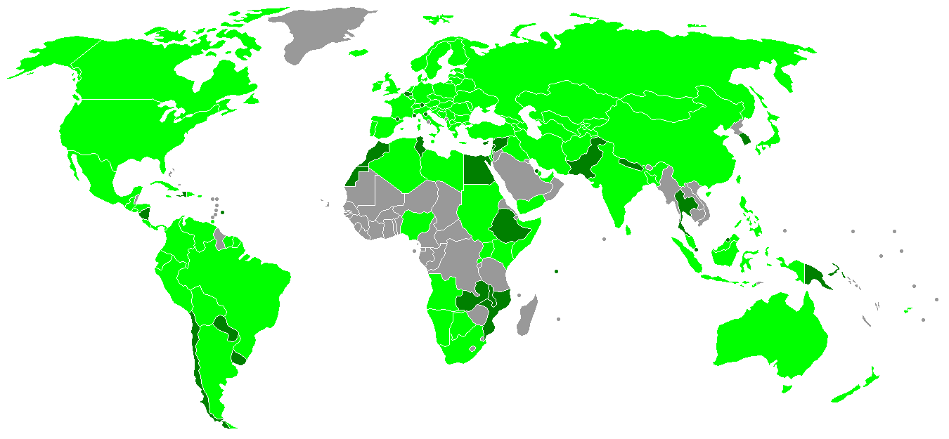 37th Chess Olympiad participating countries. Countries that participated only in the open division are shown in dark green, while the rest of the participants are shown in light green.